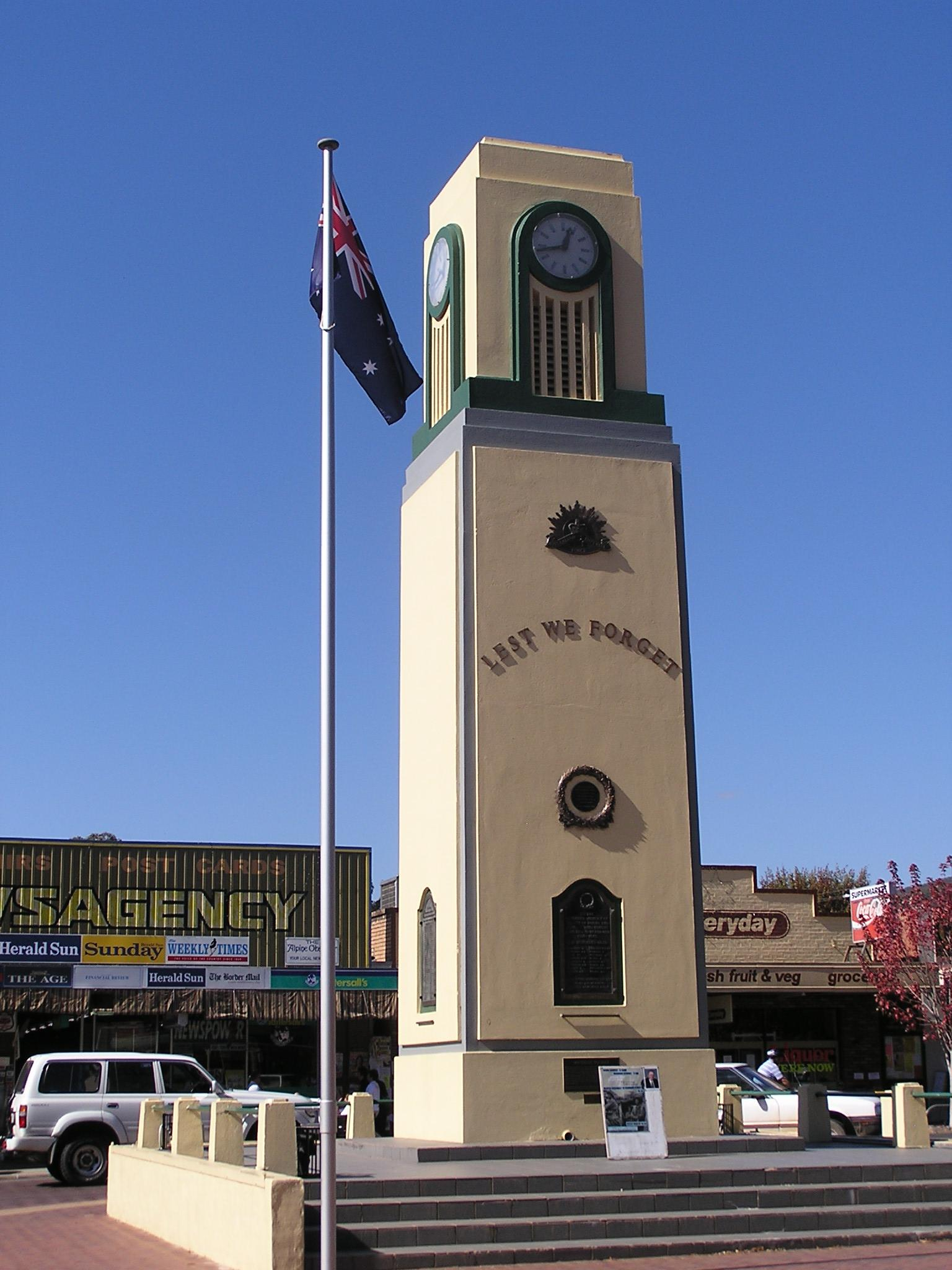 Bright, Victoria - war memorial April 2005 The memorial clock tower was unveiled in 1929. It is located in the town centre in Mafeking Square which was named in memory of the Boer war siege of 1899 - 1900.